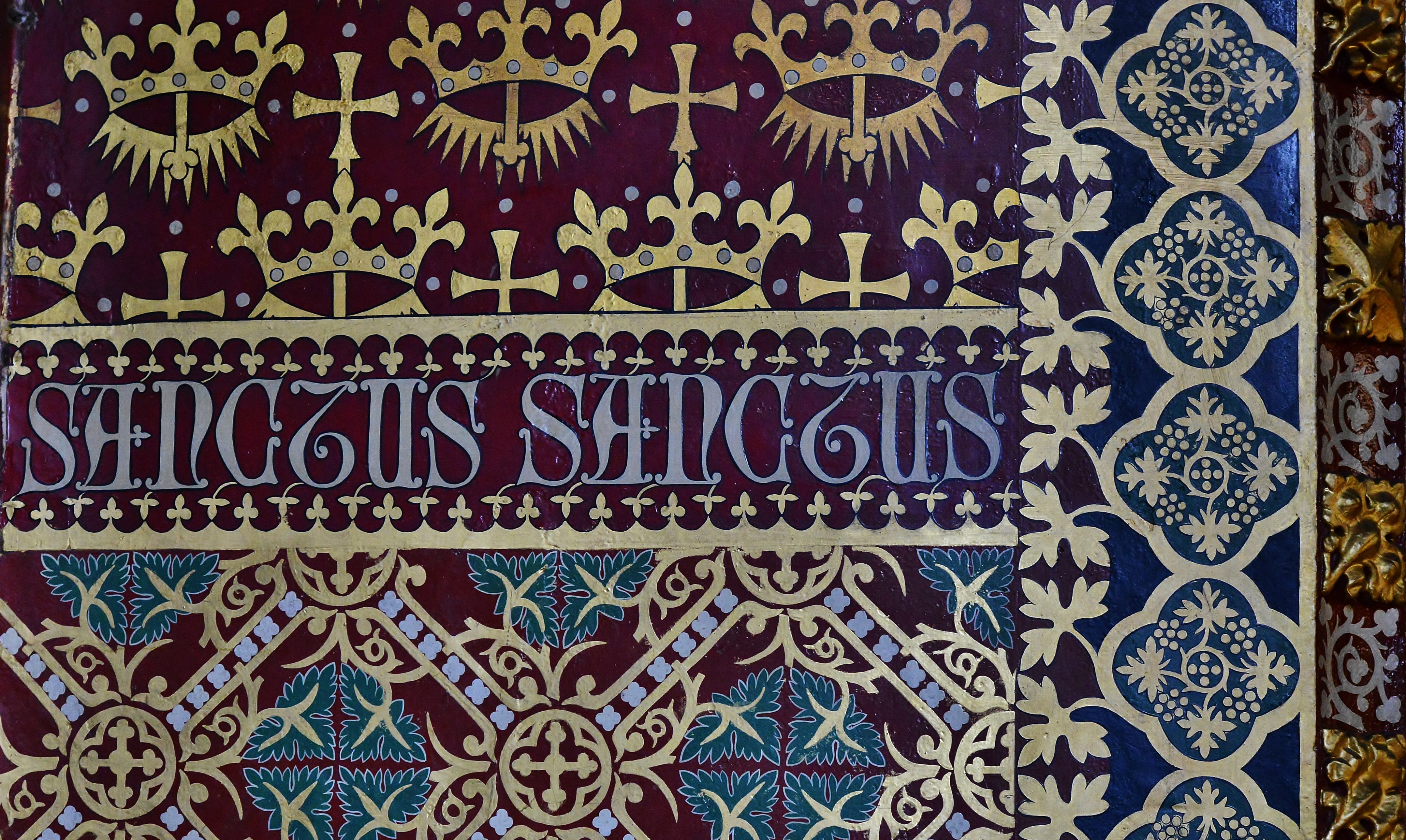 Cheadle: St. Giles' Church: Pugin's complete c13th restoration 12